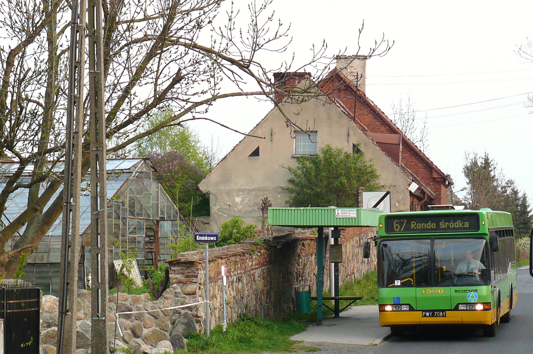 Poznań, Piołunowa Street, Radojewo District, Poland. Neoplan N4016 bus (#1506) built in 1996, MPK Poznań operator.